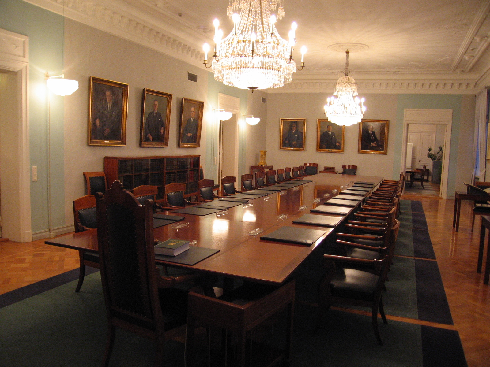 The Supreme Court of Finland